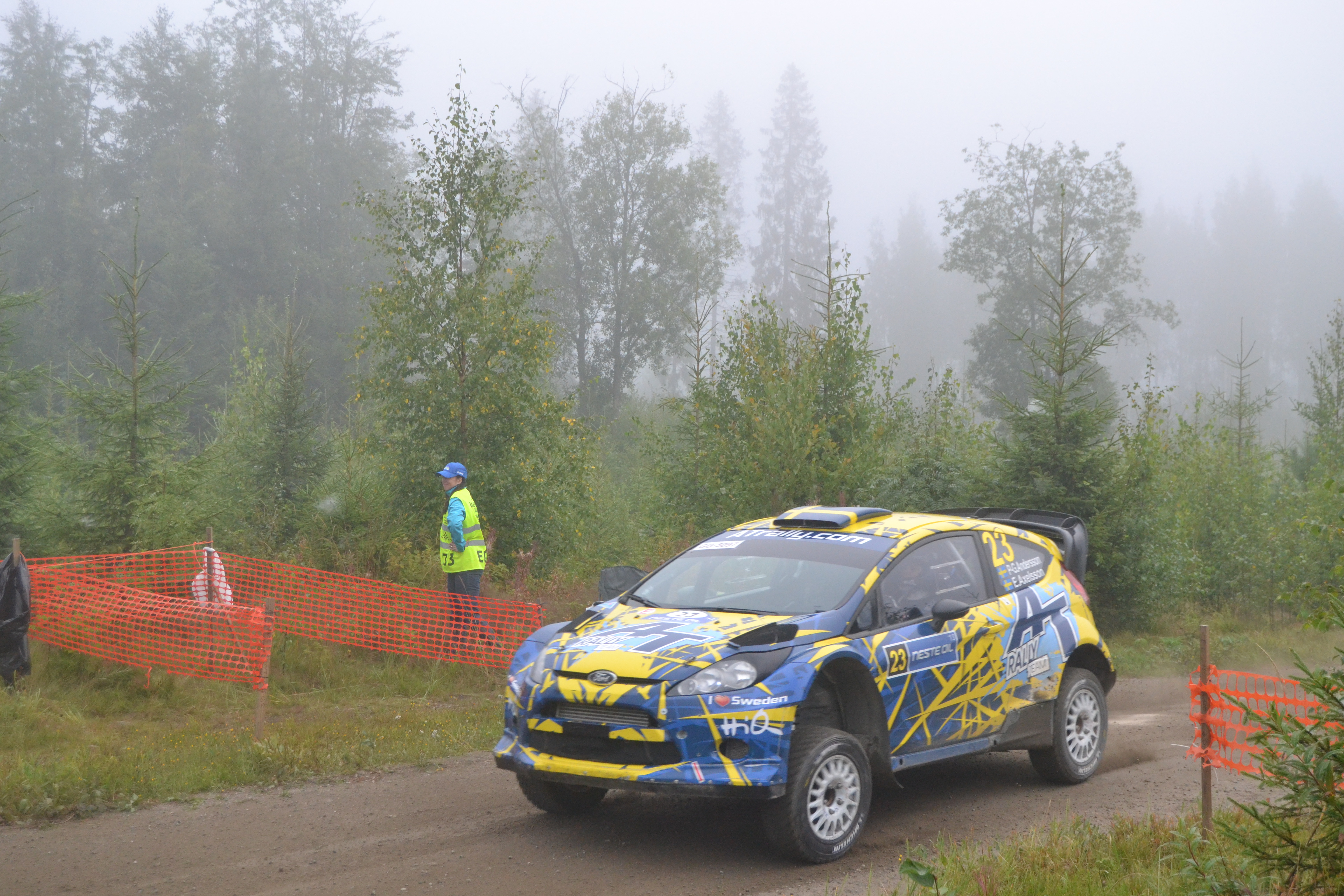 Per-Gunnar Andersson at 1st Surkee stage at 2013 Rally Finland